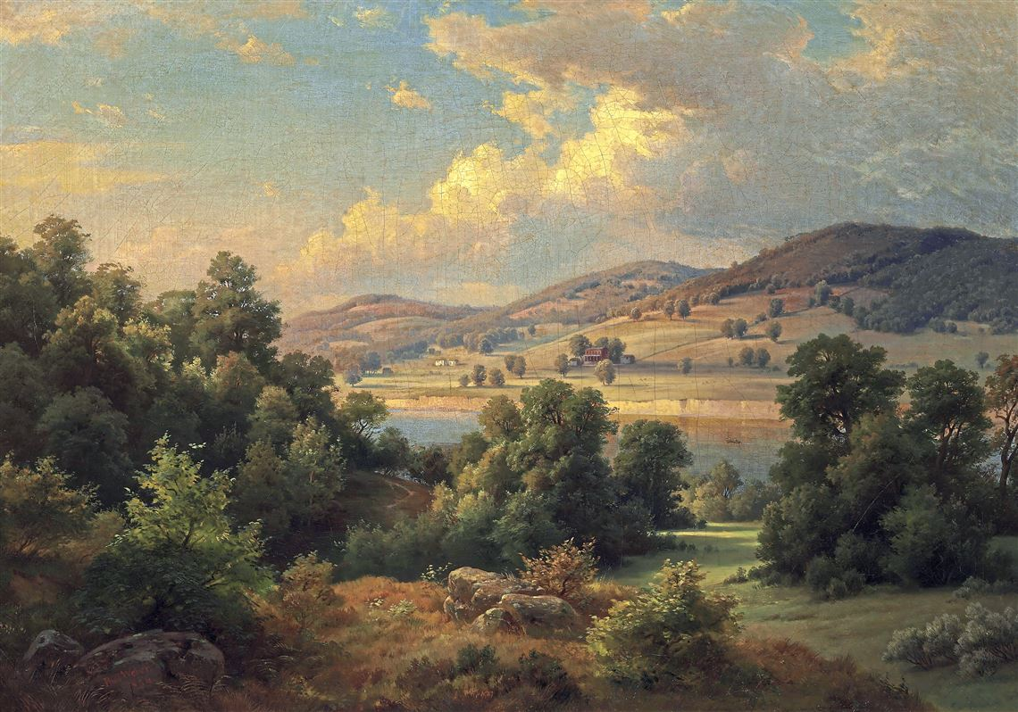 Braddock's Field by Paul Weber